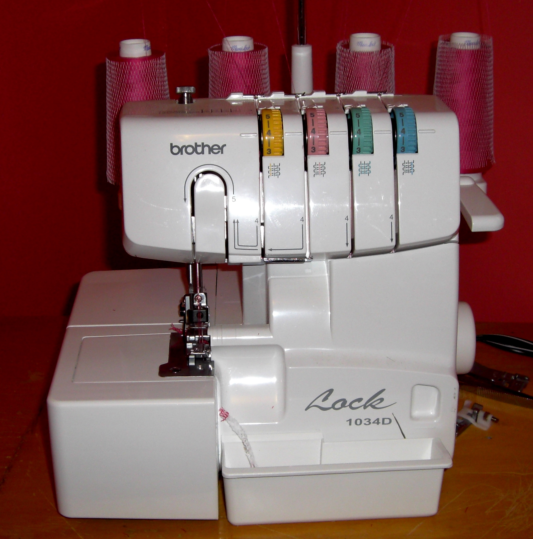 A Brother overlock serger machine.